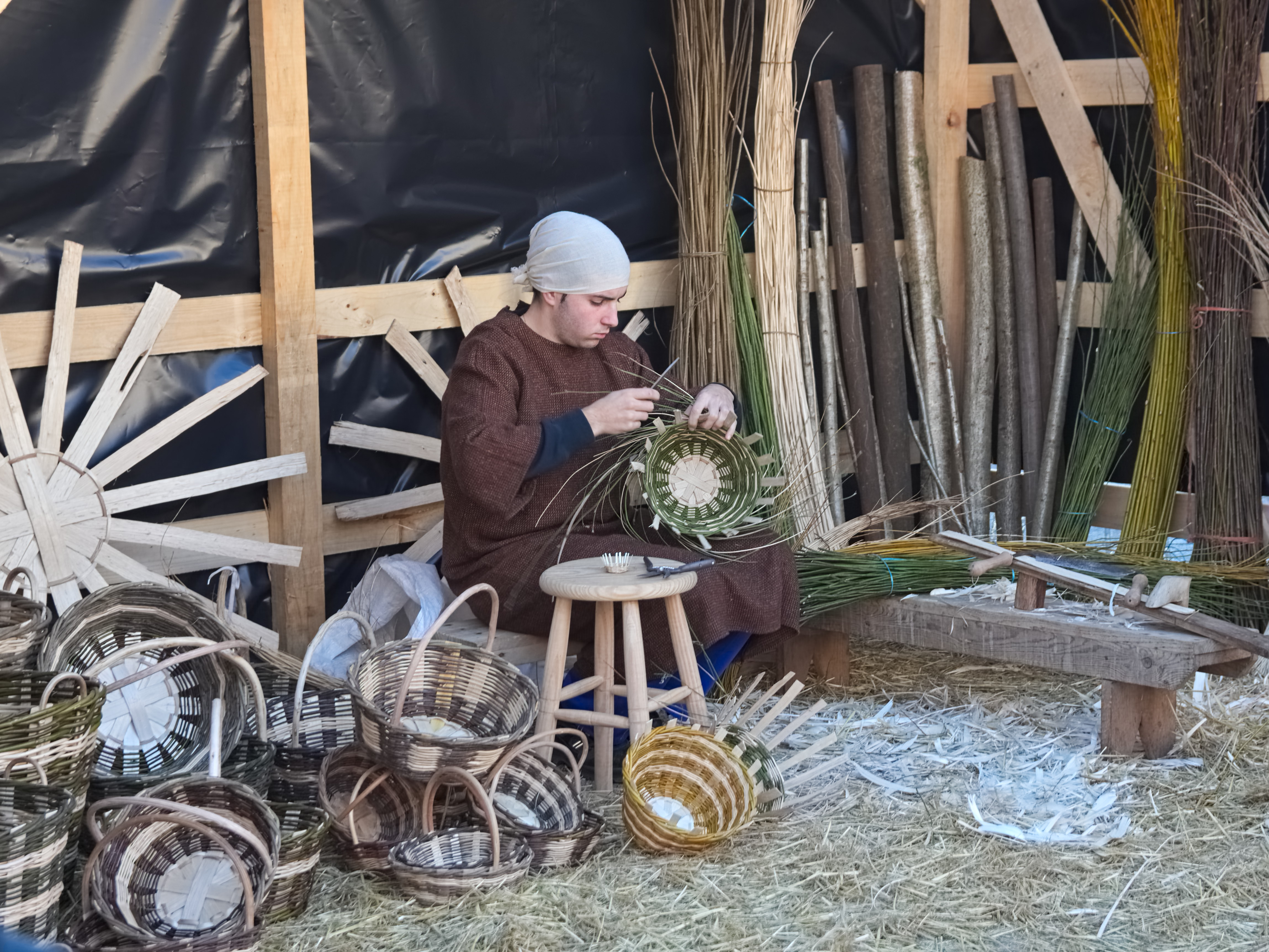 Basket maker in the Living Nativity Bertamiráns (Ames, Galicia, Spain) in 2014.